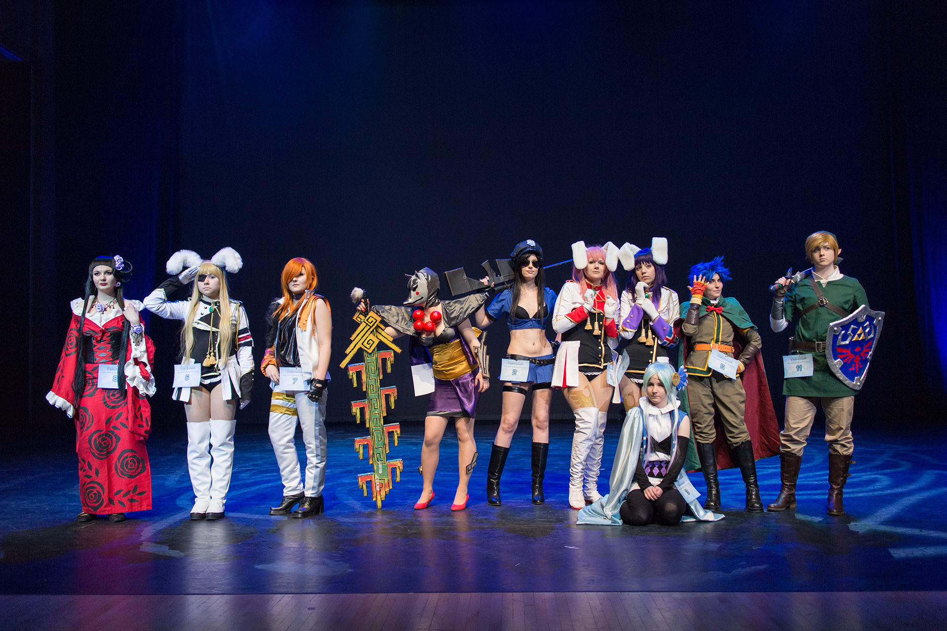 A group of cosplayers on stage at Yukicon 2014 convention in Finland